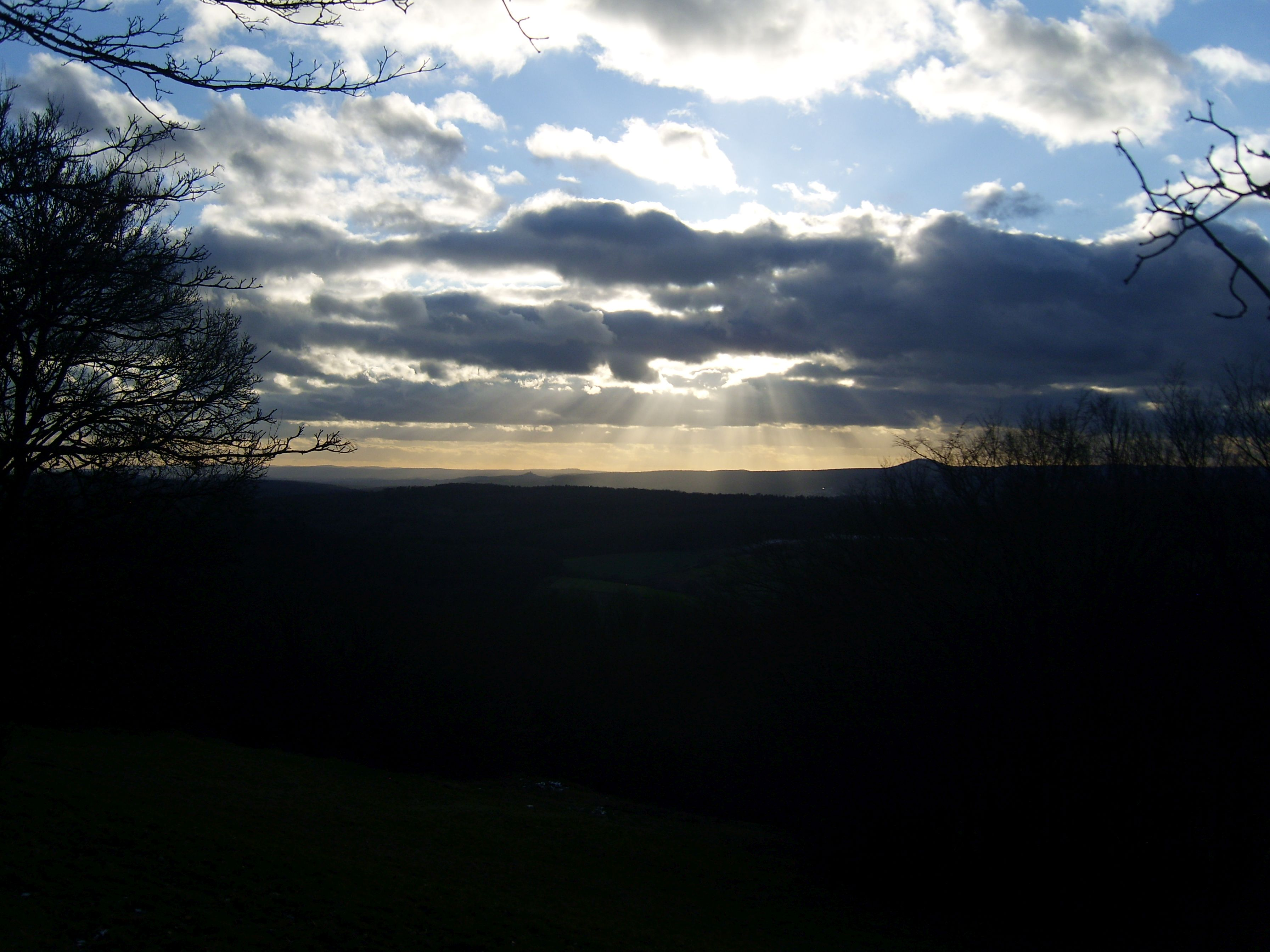 A sunny day with heavy wind of storm Friederike, January 2018 in Germany (Hesse). In the far: mountain Dünsberg below the cloudy sky.